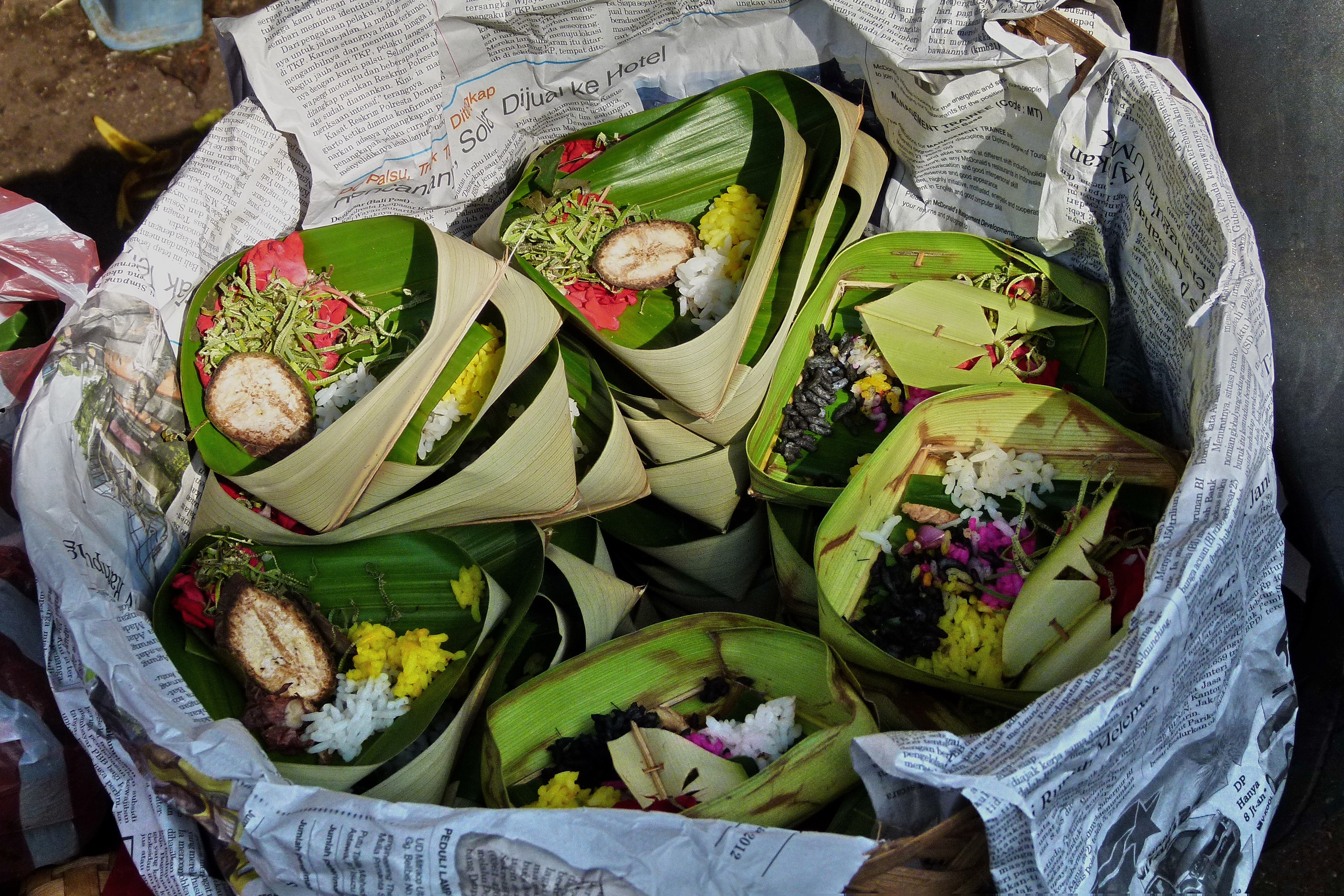 Offerings on a Balinese market